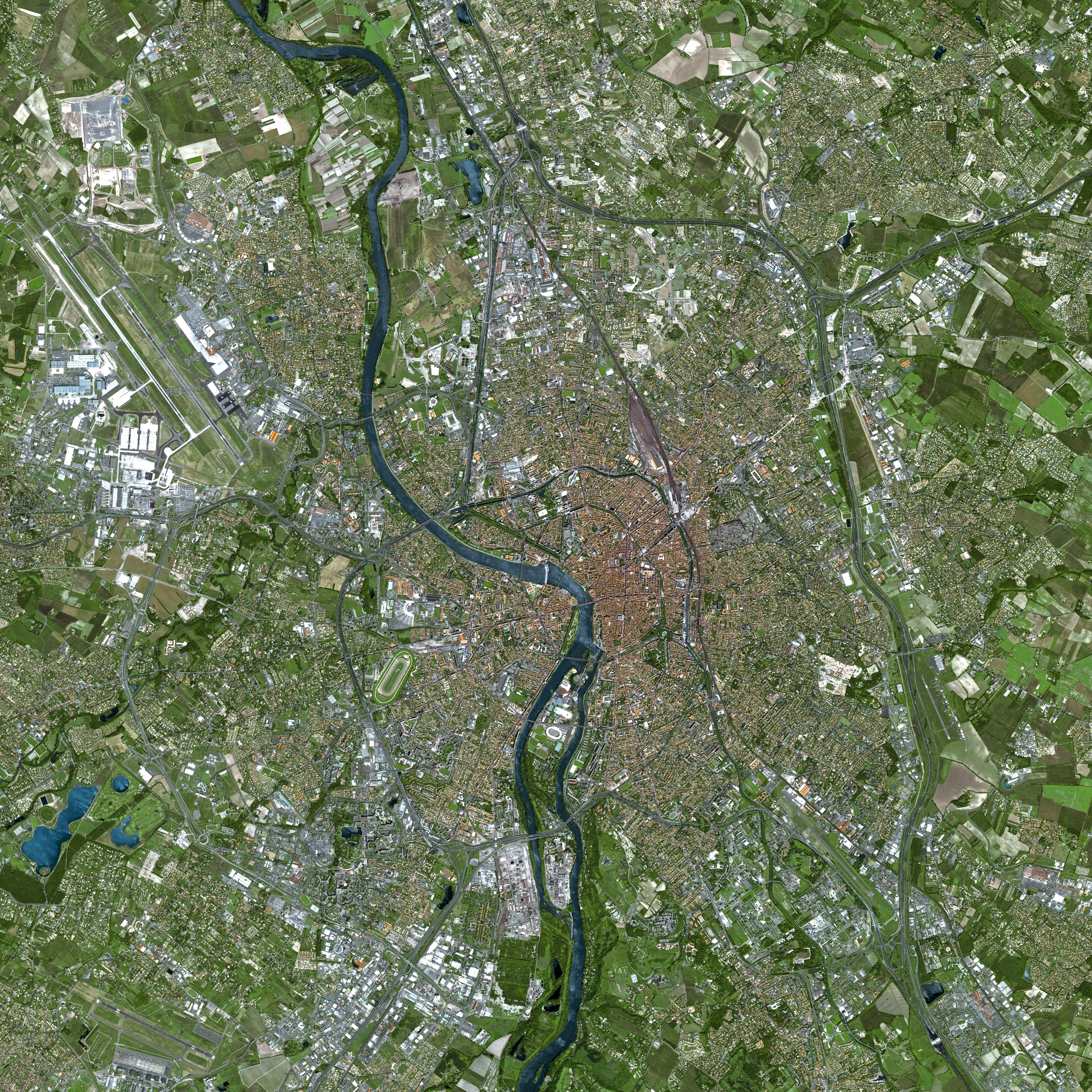 Toulouse by SPOT Satellite